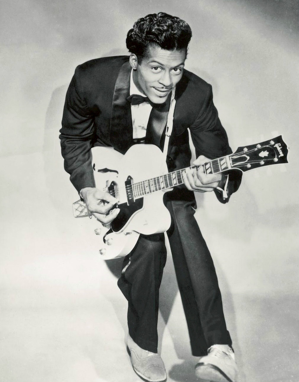 Photo of Chuck Berry circa 1958. There are no copyright markings as can be seen at the full view link. Pickwick did not mark their ad as copyrighted. Copyright(s) for Billboard magazine cover only the editorial content of the journal--not the ads placed in them. US Copyright Office page 3-magazines are collective works (PDF) "A notice for the collective work will not serve as the notice for advertisements inserted on behalf of persons other than the copyright owner of the collective work. These advertisements should each bear a separate notice in the name of the copyright owner of the advertisement."